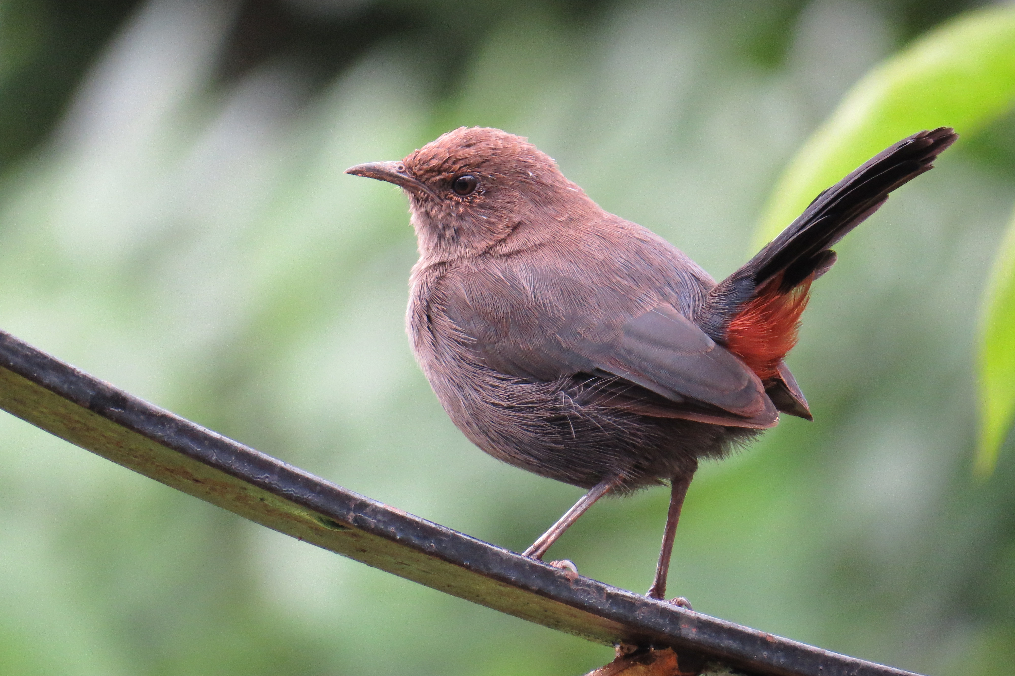 Indian Robin Saxicoloides fulicata female from Mayannur, Thrissur, India.